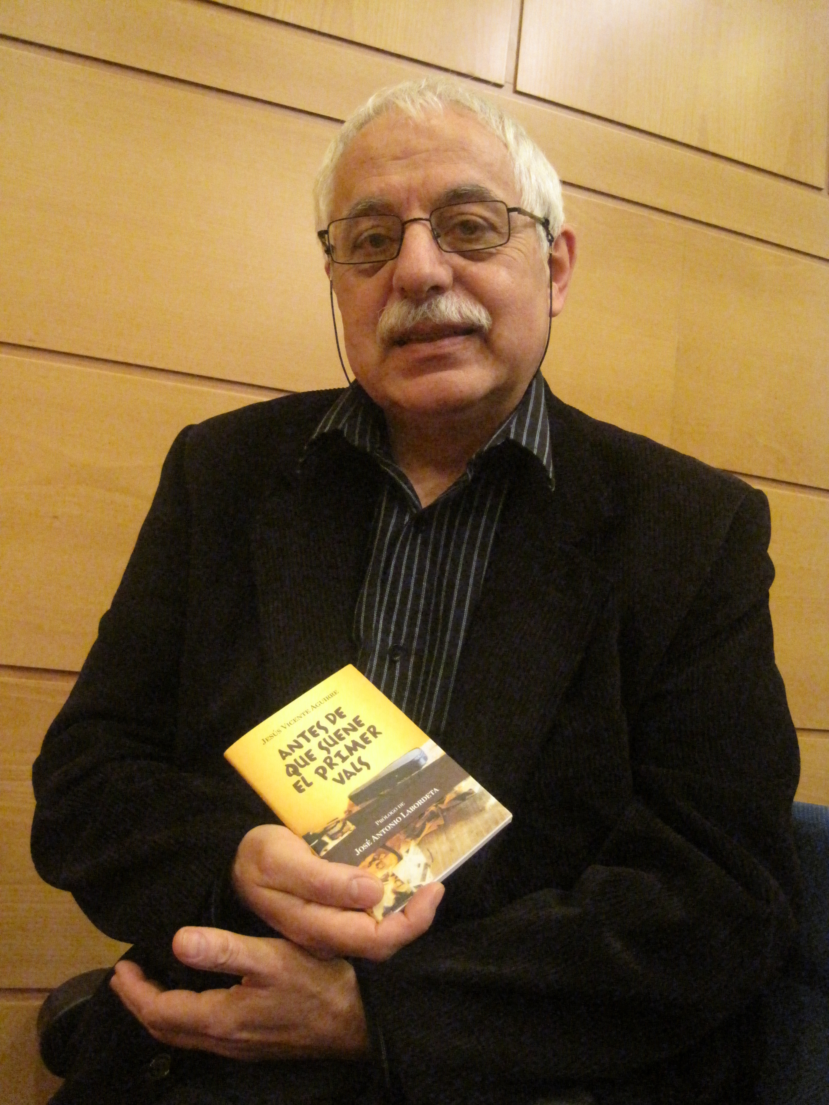 The writer Jesús Vicente Aguirre.